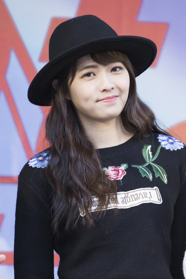 Alfa mini fans meeting at Taipei